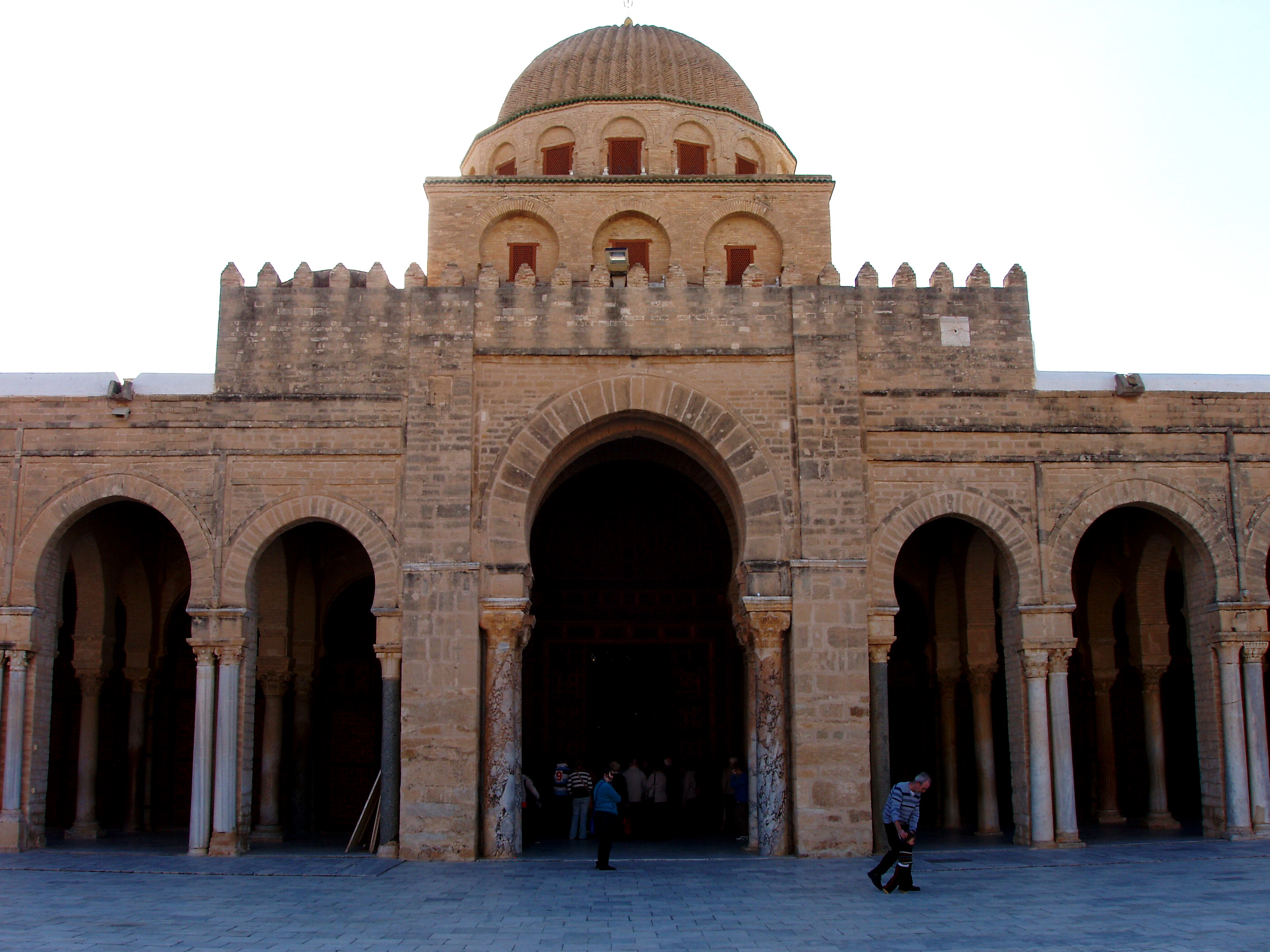 Facade of the Great Mosque of Kairouan prayer hall